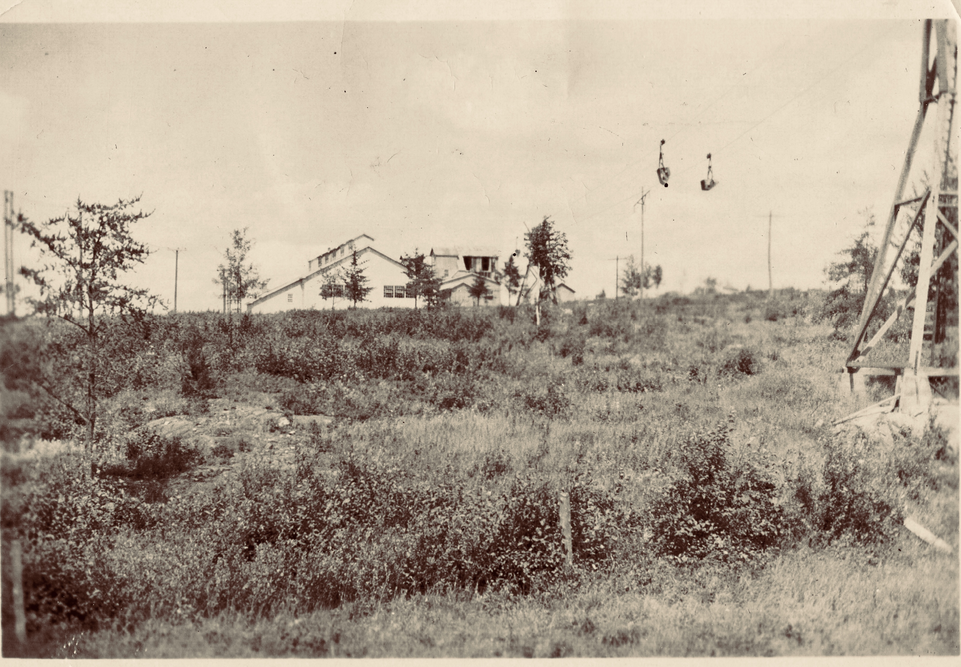 Toburn Mines 1931 Kirkland Lake Ontario